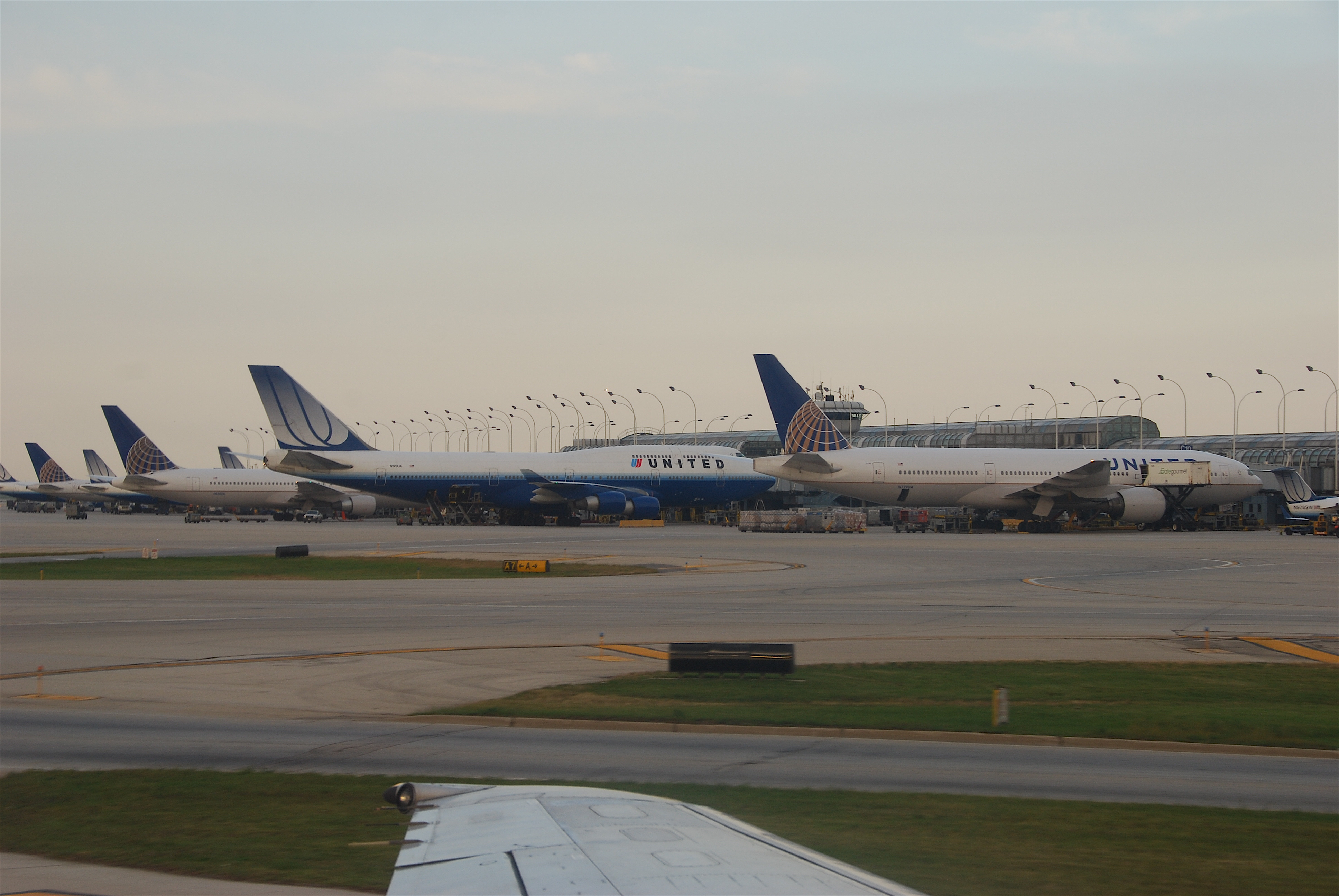 United Airlines Boeing 777-222; N779UA@ORD;12.10.2011/624bo